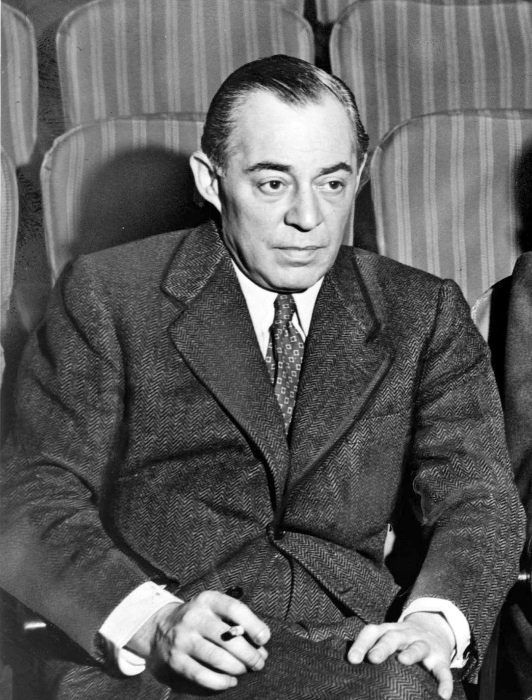 Richard Rodgers, Irving Berlin, Oscar Hammerstein II, and Helen Tamiris (back), watching hopefuls who are being auditioned on stage of the St. James Theatre